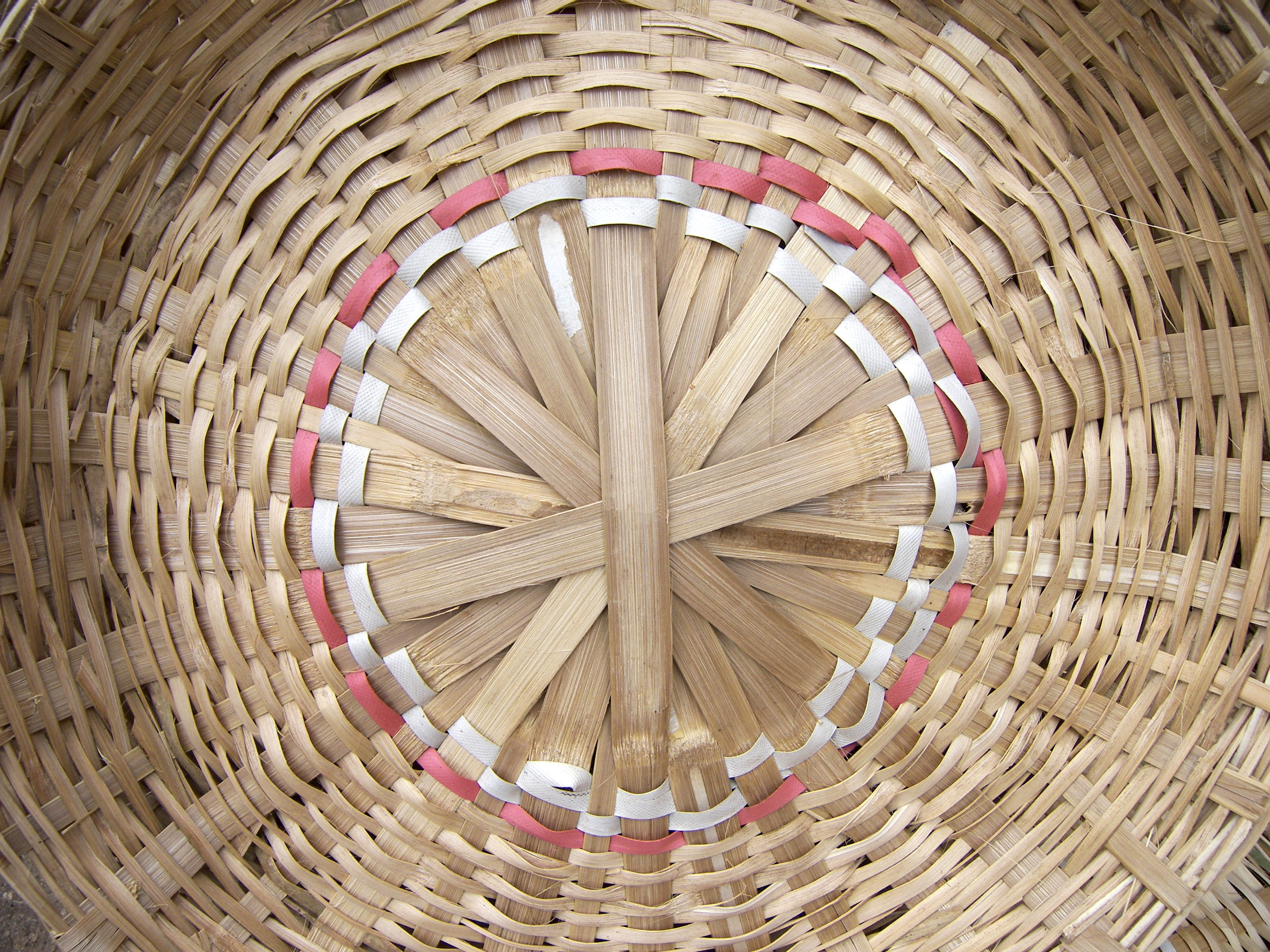 Woven Bamboo Basket. Rajesh Dangi, city Market - Bangalore, July 07